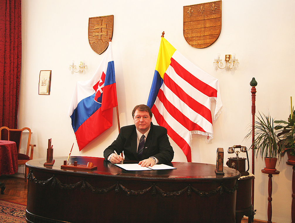 Lubomir Grega